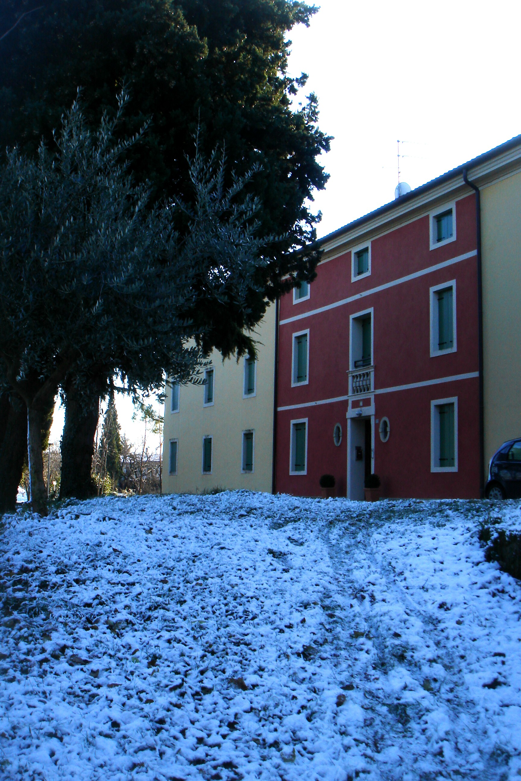 Canonica of Castello Roganzuolo, via Castello di Reggenza